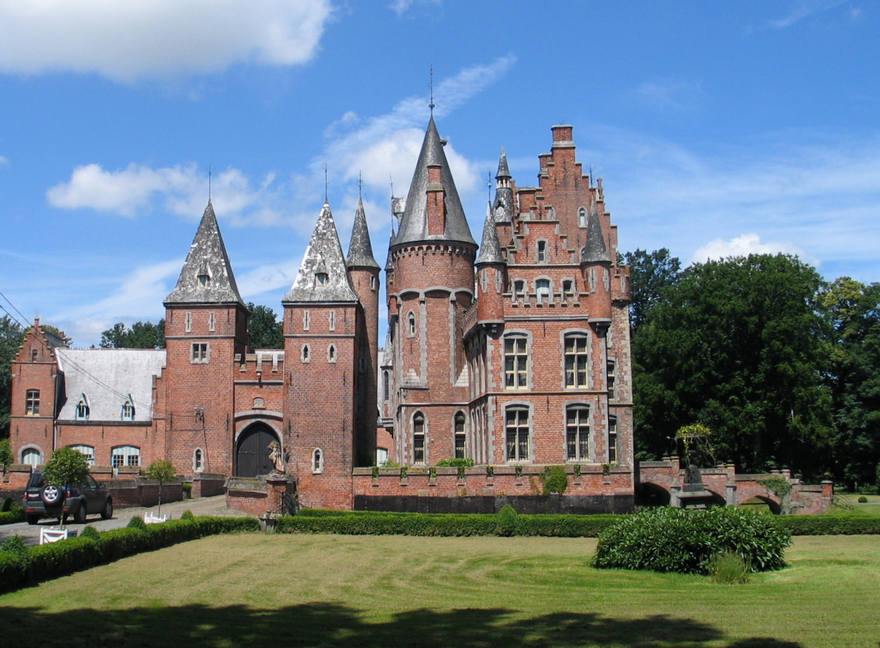 Castle of Lovendegem (Belgium)